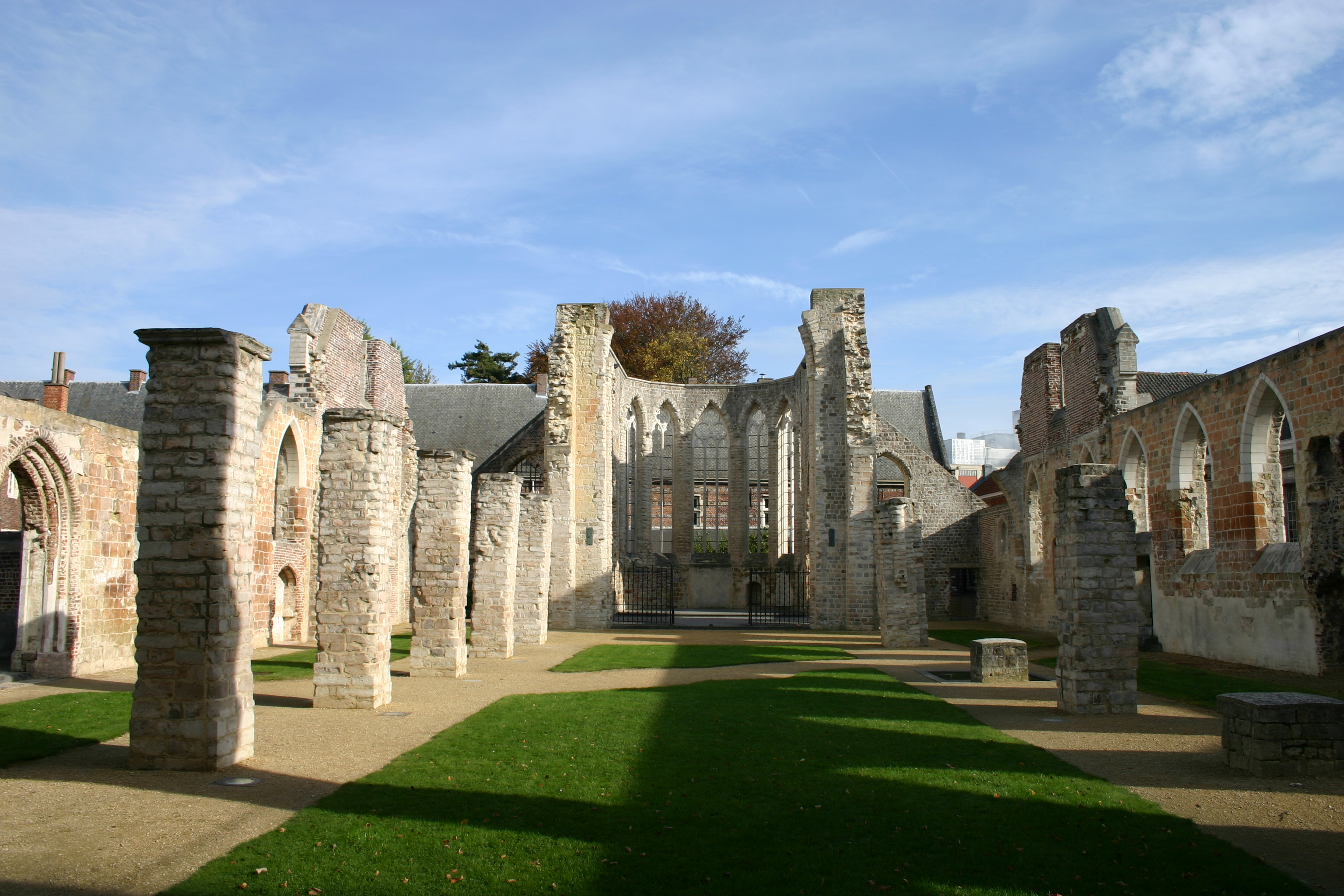 The church Paterskerk in Tienen (The Flanders, Belgium)